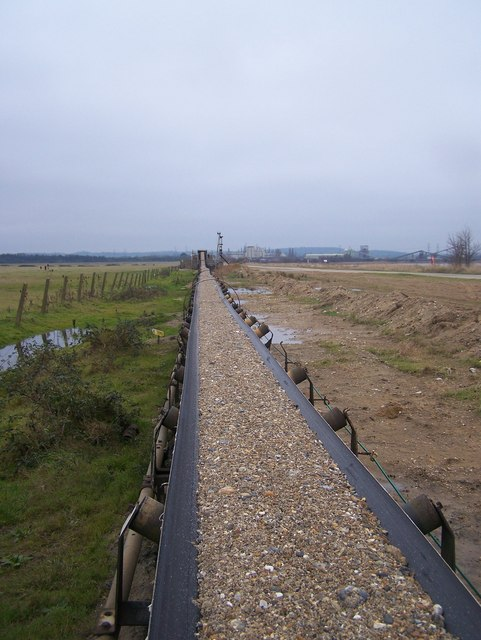 Conveyor Belt to Works Carries various stone materials, from barges on River Thames to Bagging Plant on Salt Lane. Looking down the belt towards the Works. Seen from footpath RS331, which stops at the belt.